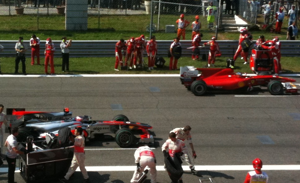 alonso,Button next to each other